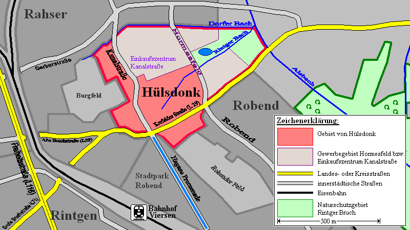 Map of Hülsdonk, Viersen, Germany.